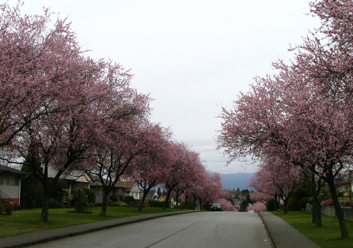 This image was created by me, Flying Penguin of Pacific Spirit Photography ( of Burnaby, British Columbia, Canada